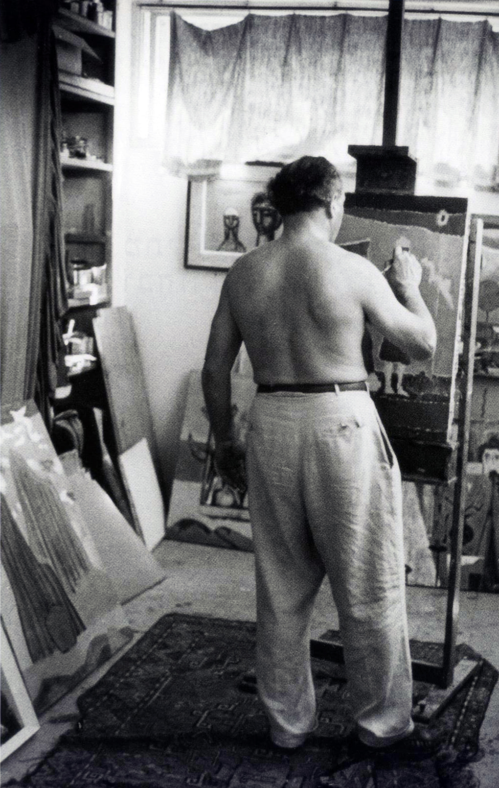 Yohanan Simon painting in the studio on 125 Rothschild Blvd. Tel Aviv. mid 1950's. Photographer unknoen